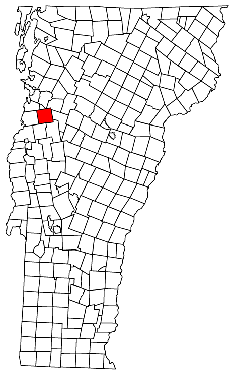 Description: Map of Vermont towns with Hinesburg highlighted Source: Map created by Jared C. Benedict on 26 March 2004. Copyright: © Jared C. Benedict.